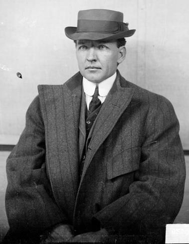 Billy Sullivan of the Chicago White Sox in 1909. Note: Image is cropped from original photograph.